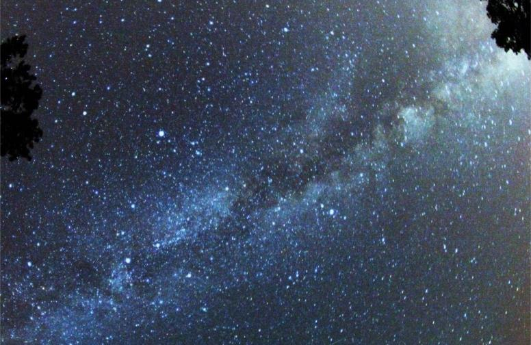 Height cut of the image Perseid_Meteor.jpg by Brocken Inaglory.